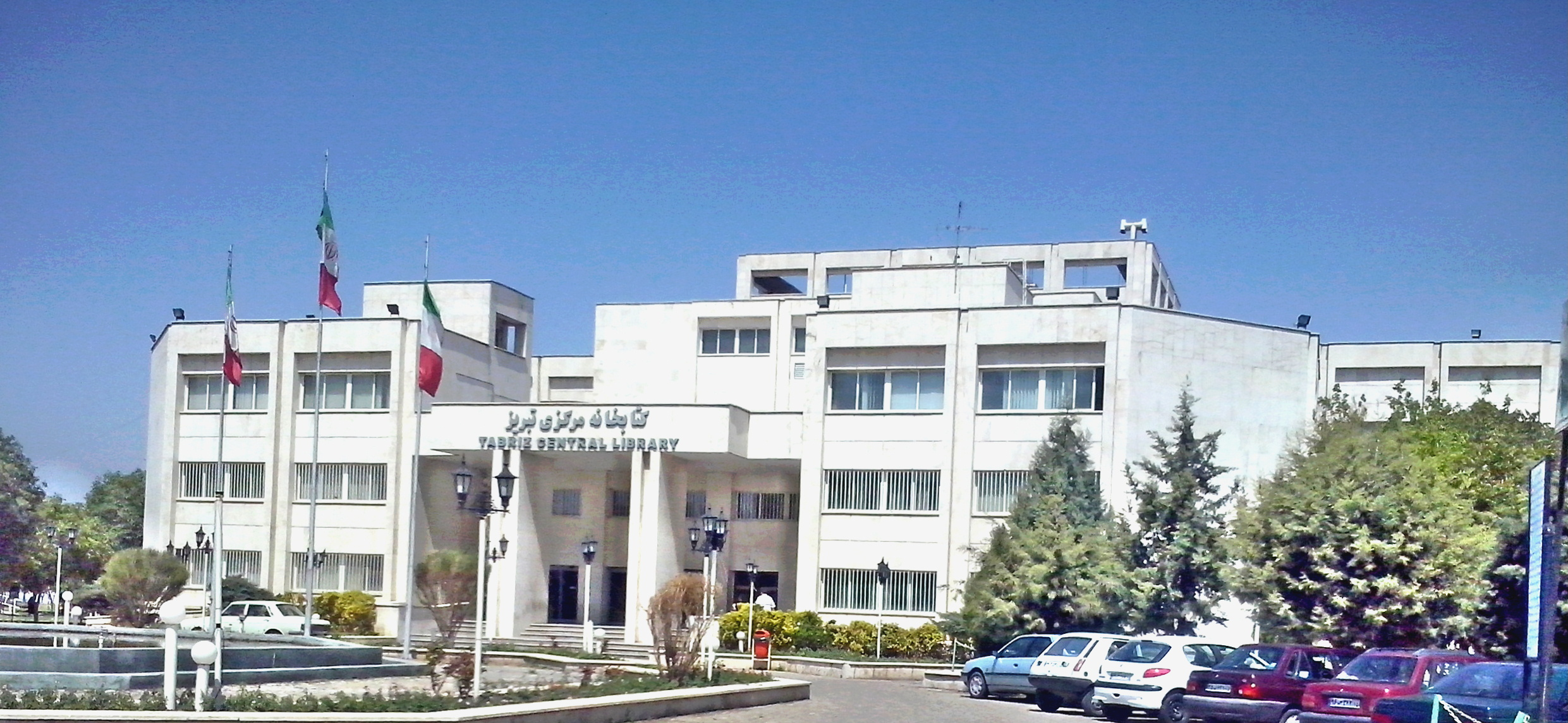 Tabriz Central Library